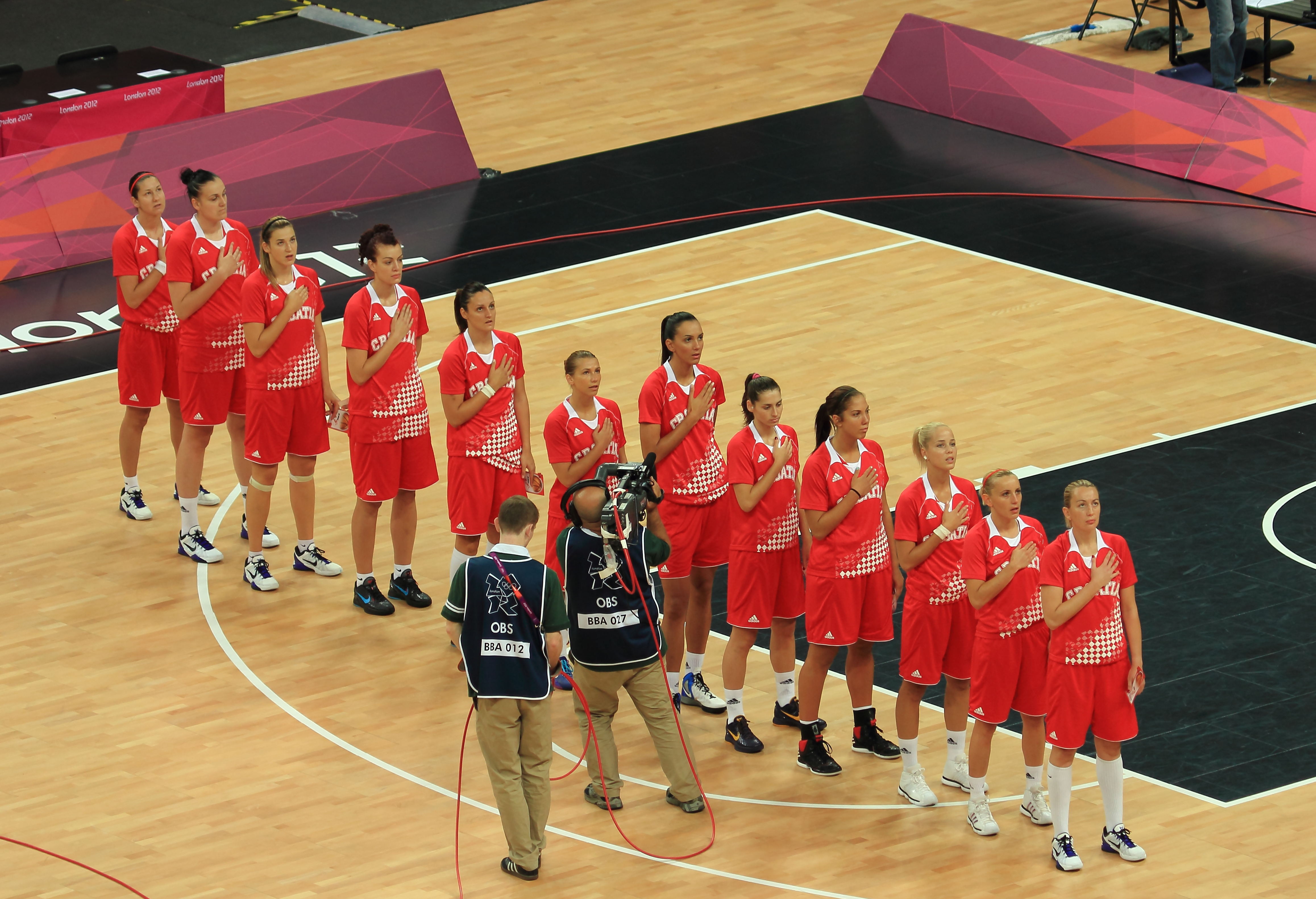 The Croatian Women's Basketball team singing their national anthem prior to their match with Angola in the Group A preliminary rounds for the London 2012 Olympic Games. Right to left: Sandra Mandir, Anđa Jelavić, Antonija Mišura, Lisa Ann Karčić, Emanuela Salopek, Marija Vrsaljko, Iva Ciglar, Ana Lelas, Iva Slišković, Mirna Mazić, Luca Ivanković, Jelena Ivezić.